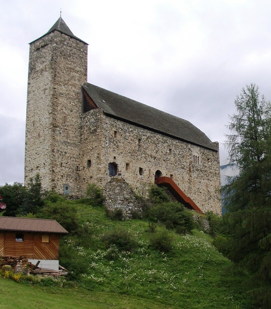 Castle of Riom, Grisons, Switzerland Rumantsch: Igl casti da Riom, Grischun, Svizzra